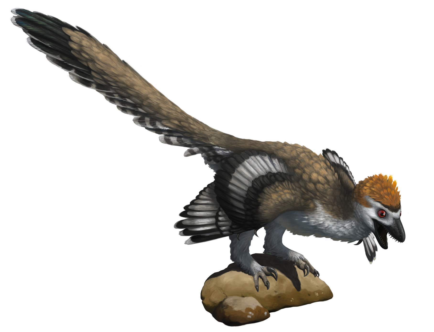 Life restoration of Zhenyuanlong depicted using its wings in a threat display, as suggested by the authors